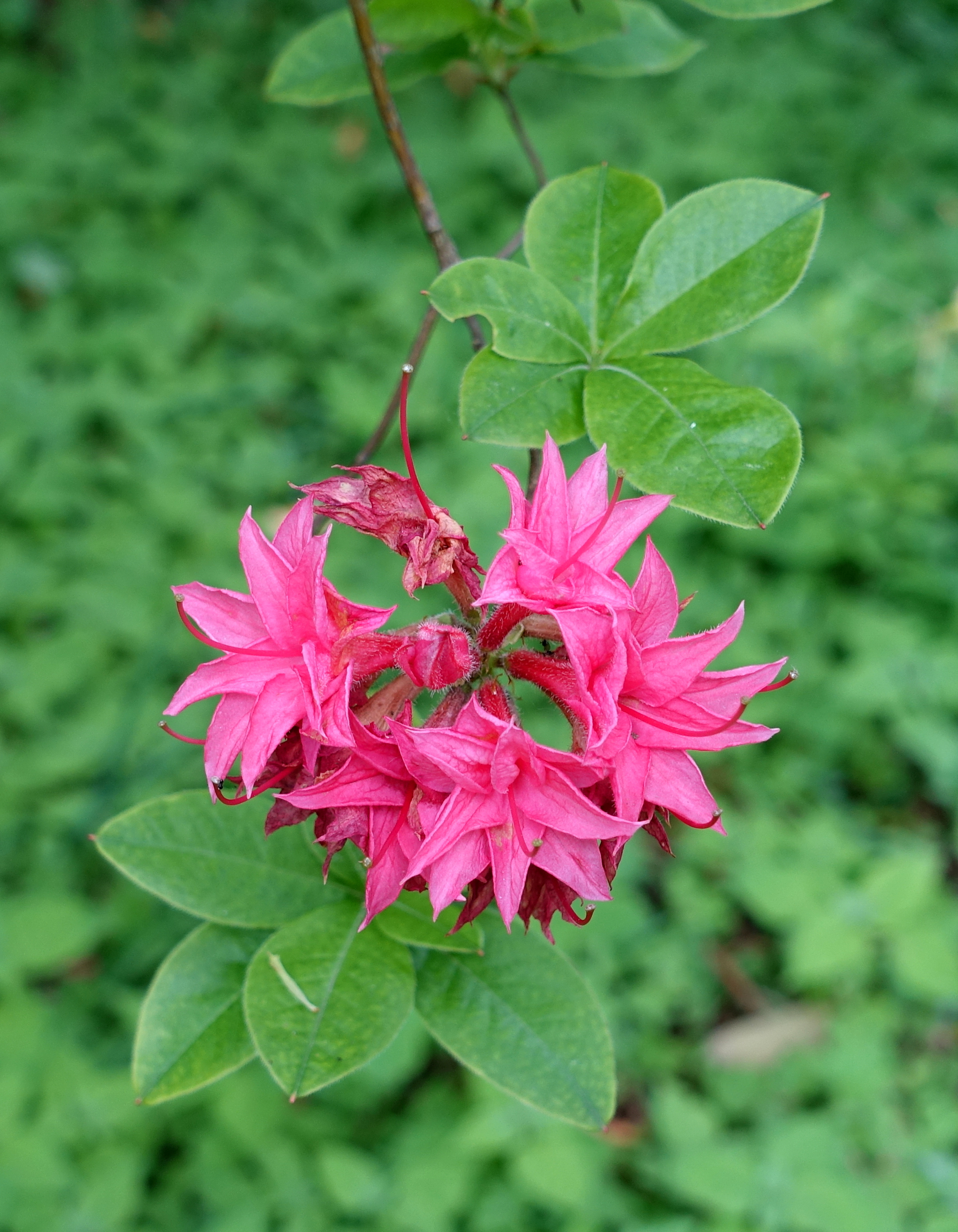 Horticultural specimen in Sir Harold Hillier Gardens - Romsey, Hampshire, England.